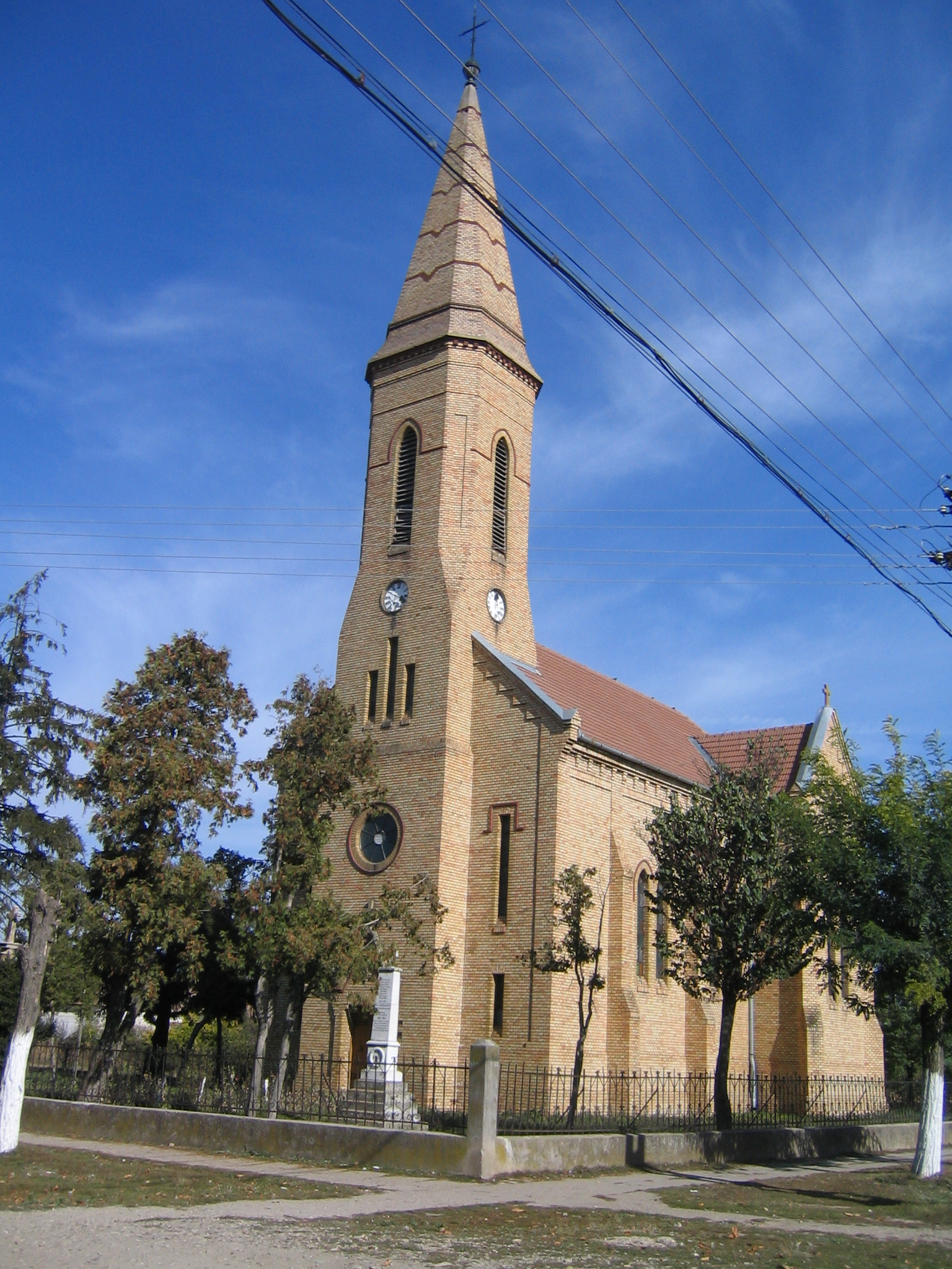 Roman Catholic church in Hodoni (Hodon, Hodony) village, Romania